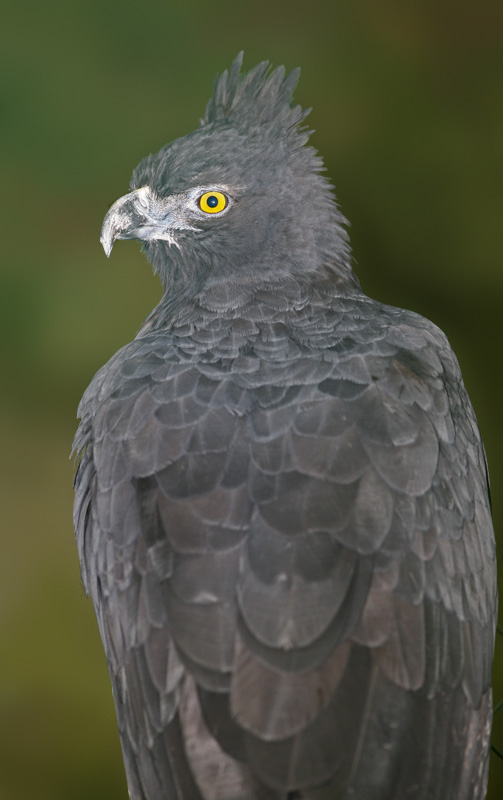 Black-and-chestnut Eagle (Spizaetus isidori)